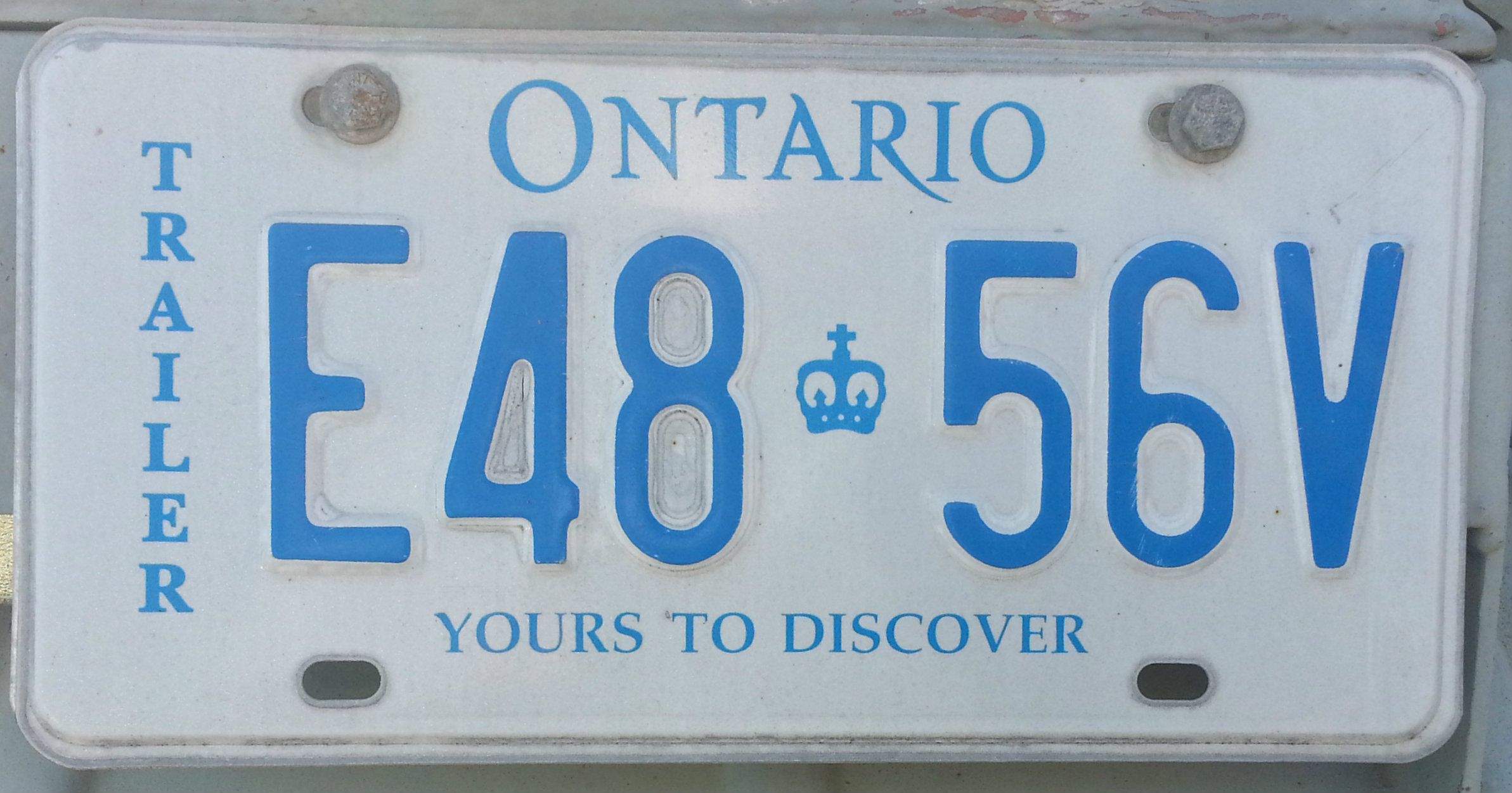 Ontario Trailer plate E48*56V affixed to a semi-trailer.